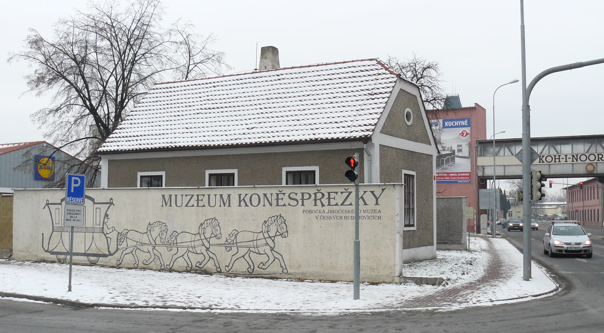 Museum of Horse Rail in Ceske Budejovice.